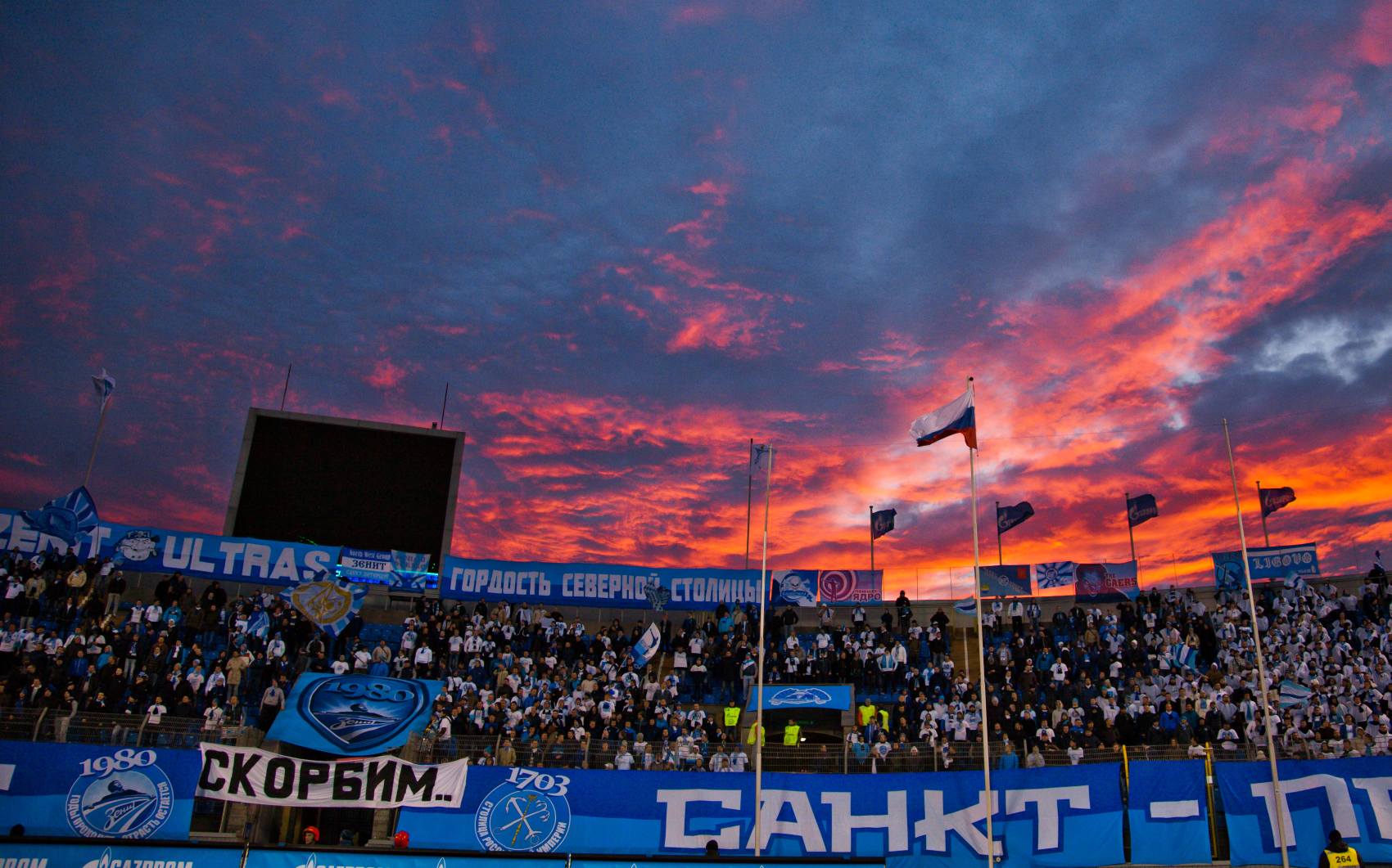 FC Zenit Saint Petersburg